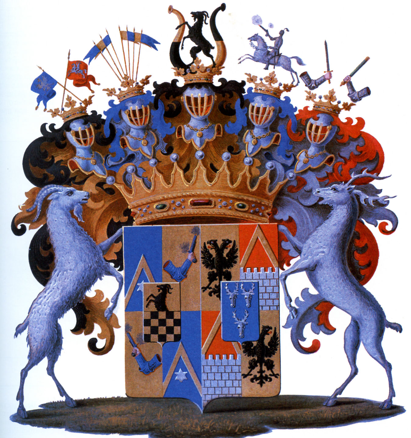 Coat of Arms of Stenbok-Fermor family